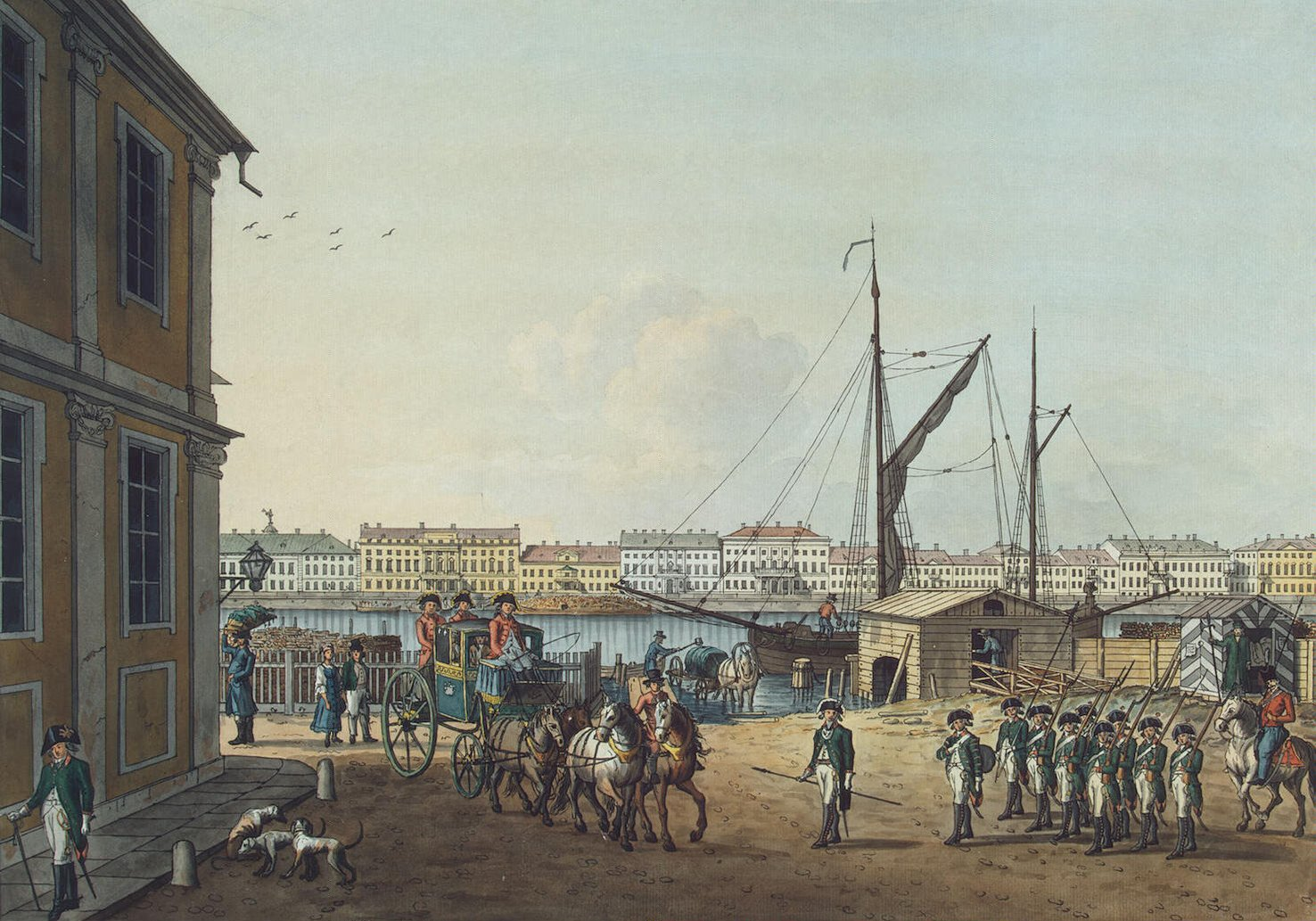 1st section